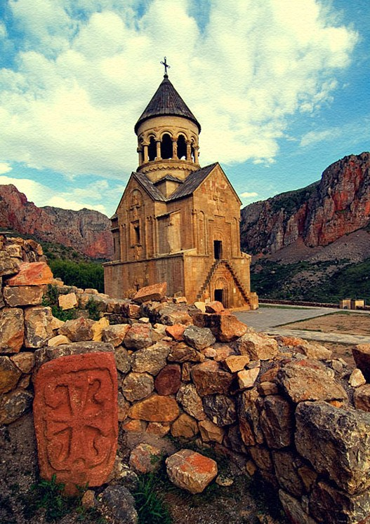 Noranabq Mon., Surb Astvatsatsin Church, Armenia